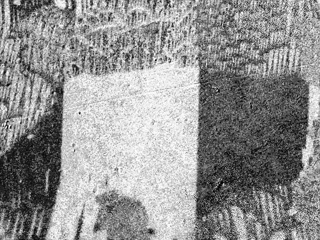 Bar domains - visible dark and light regions inside the grain, and a complex domain structure outside of the grain. Width of the image represents 0.1 mm.